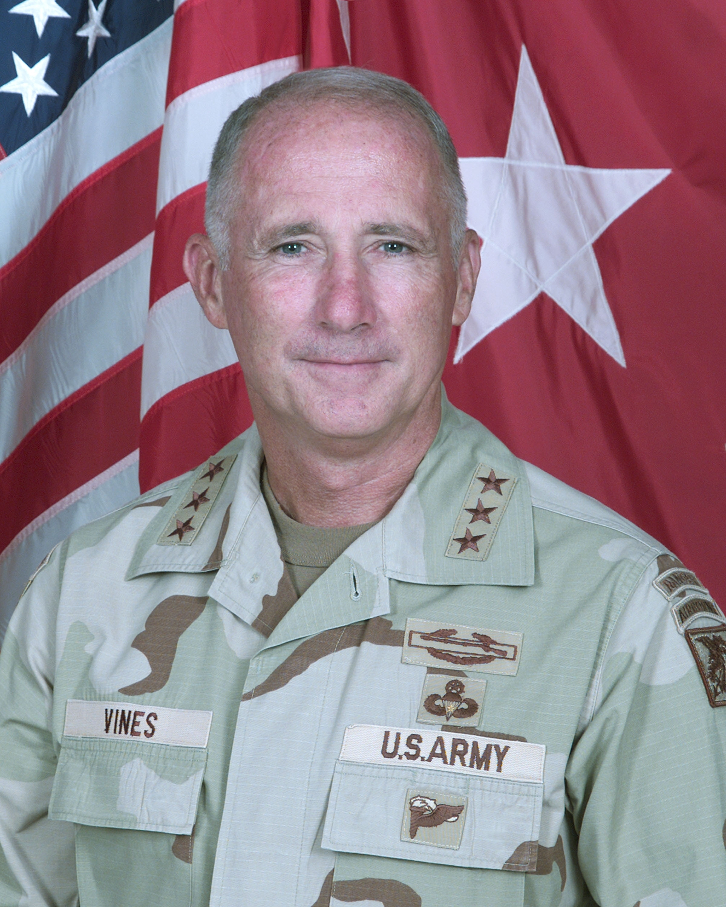 Lt. Gen. John R. Vines official US Army portrait (Coutesy: US Army)